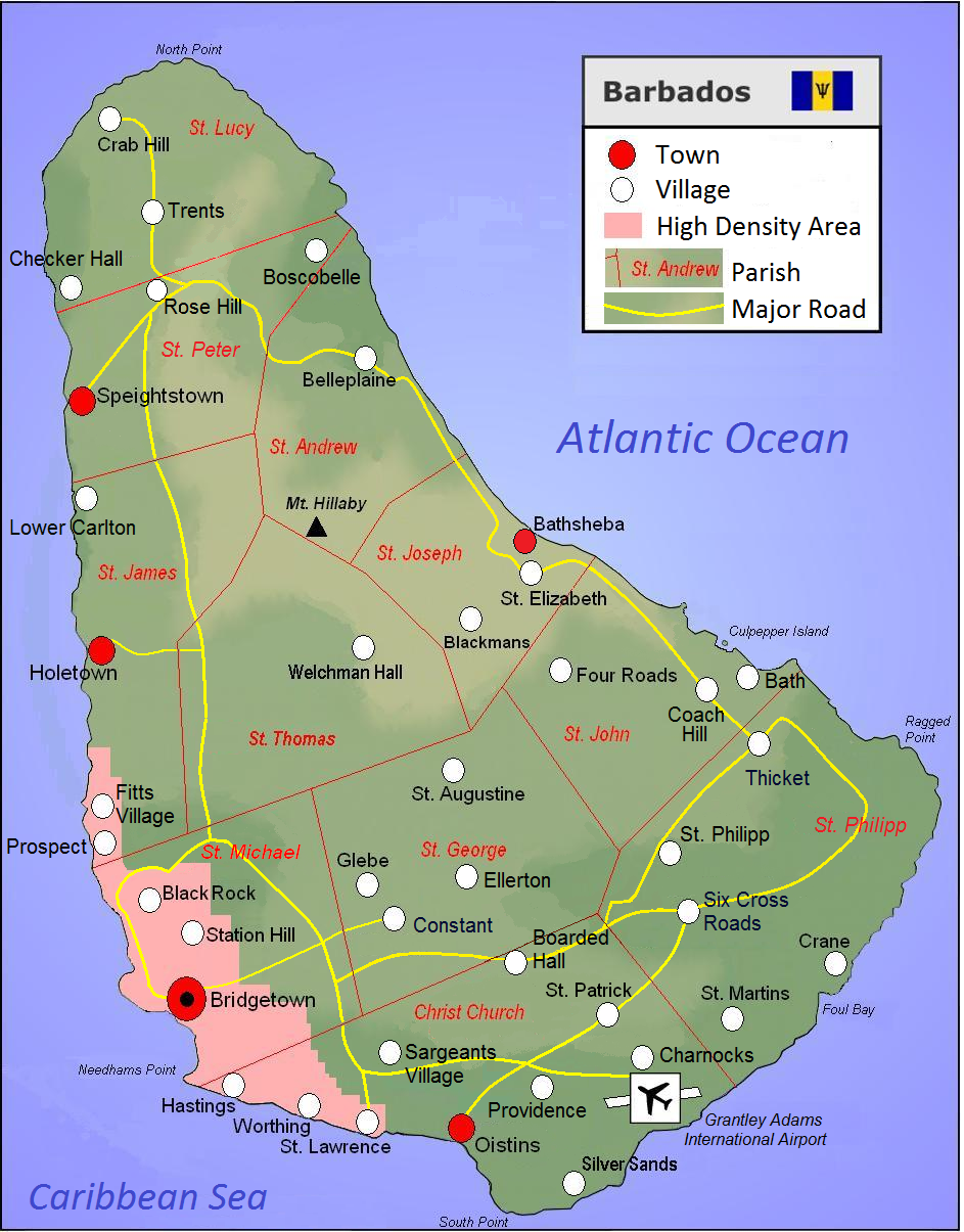 Map of Barbados, showing towns, villages, roads and parishes